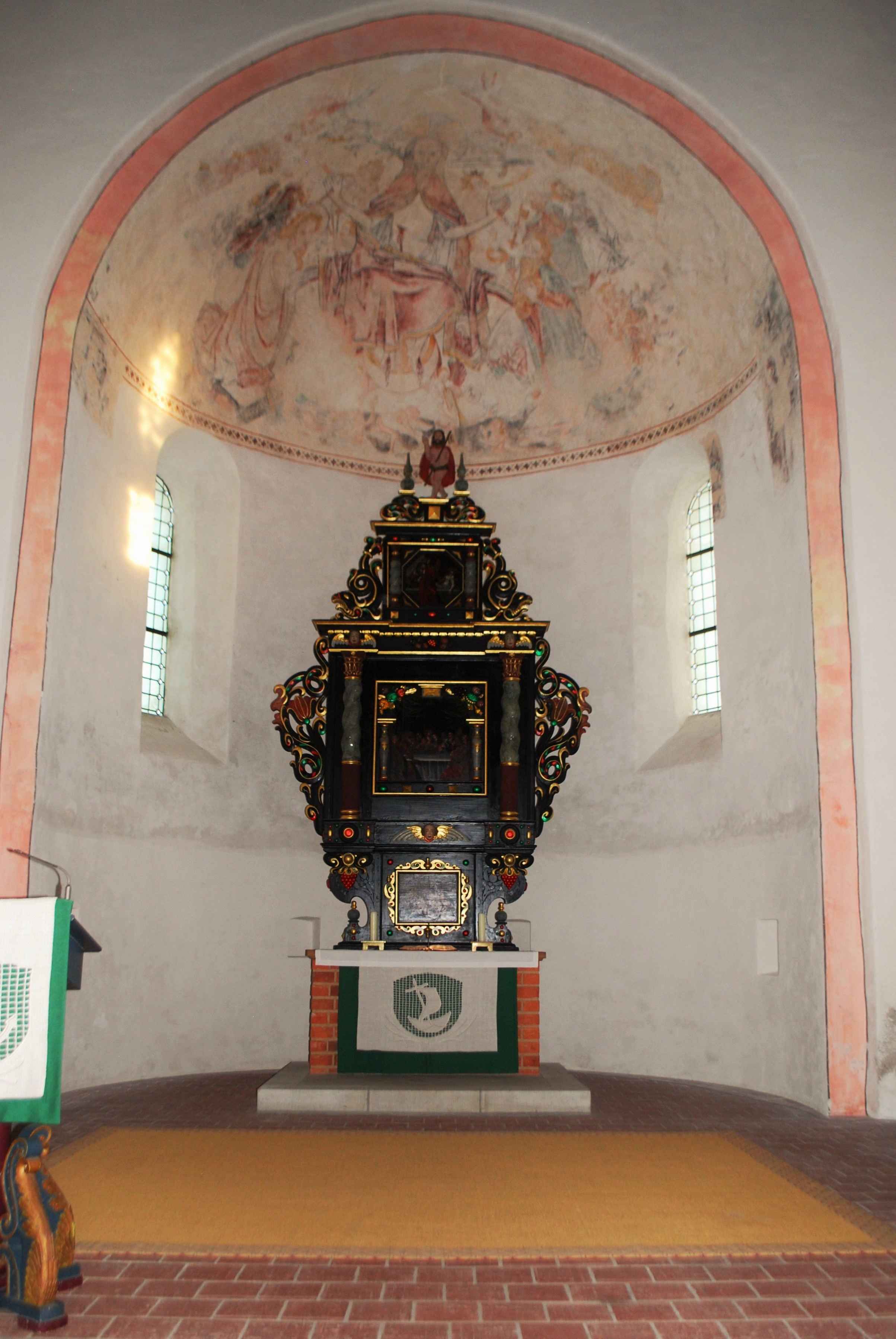 The altar in church of Minsen, Minsen, Wangerland, Germany